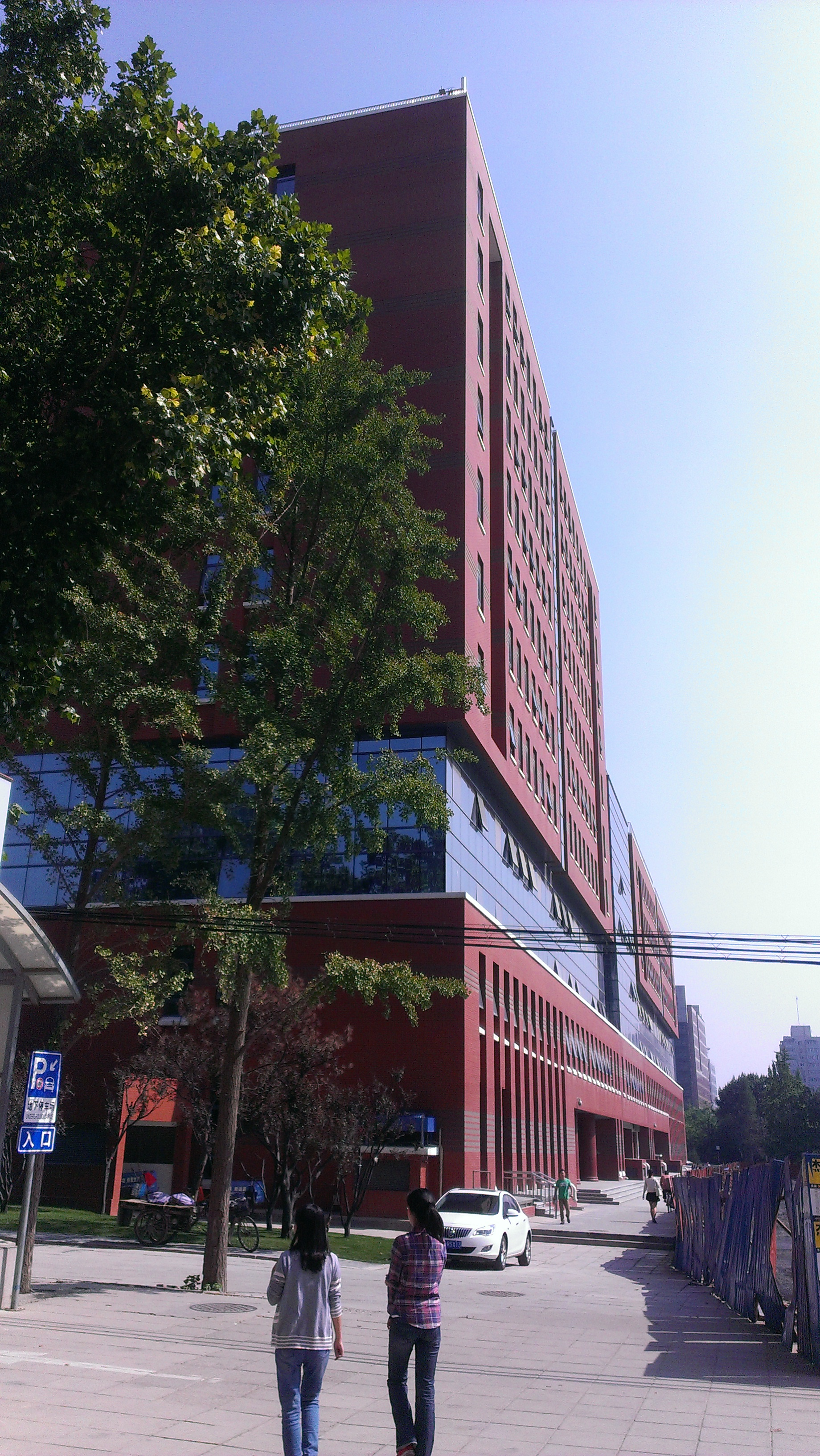 Mainbuilding of CUPL Haidian Campus